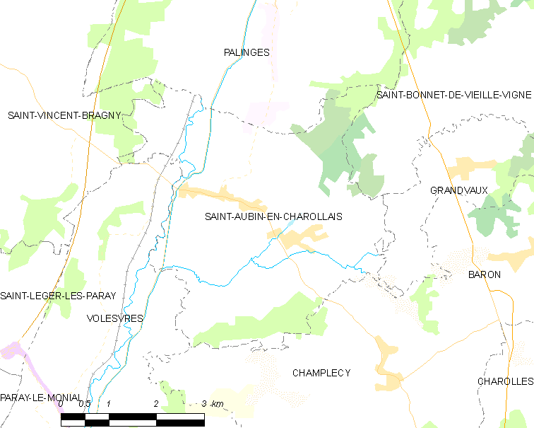 Map of French municipality